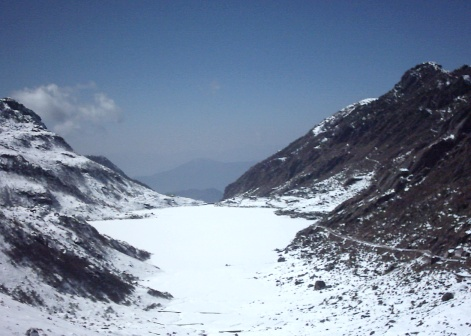 Chsungo, or Tsongmo Lake January 2003 by Danny Burke, Bogman